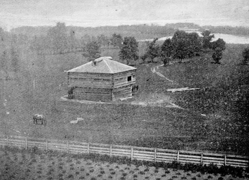 1942 postcard of blockhouse on Bois Blanc Island, Ontario, Canada